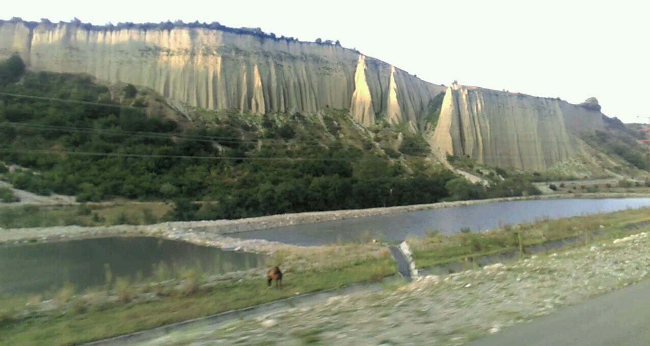 Ləzə kəndi